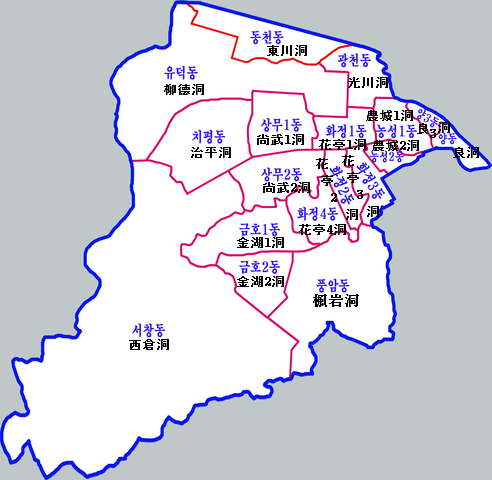 Seogu-gwangju